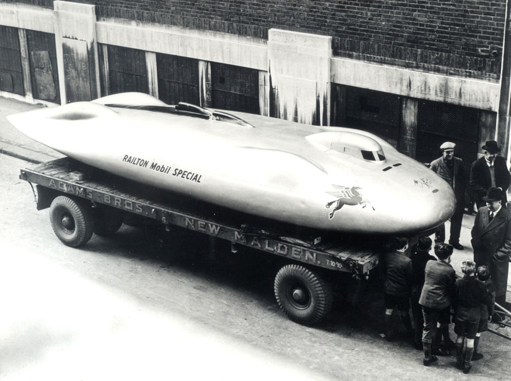 placeholder placeholder placeholder